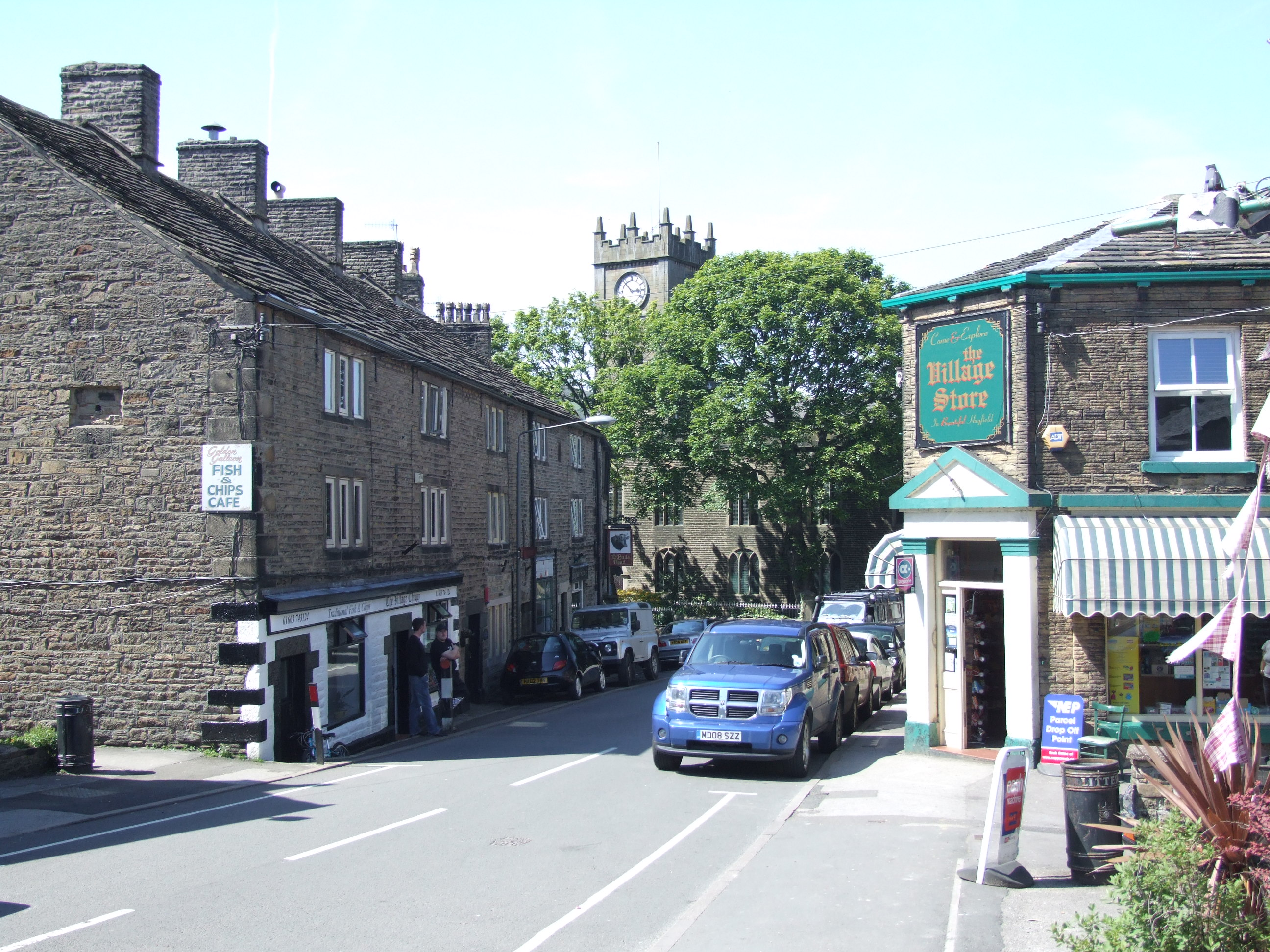 Hayfield is a village in the Peak District. Along Church Street.